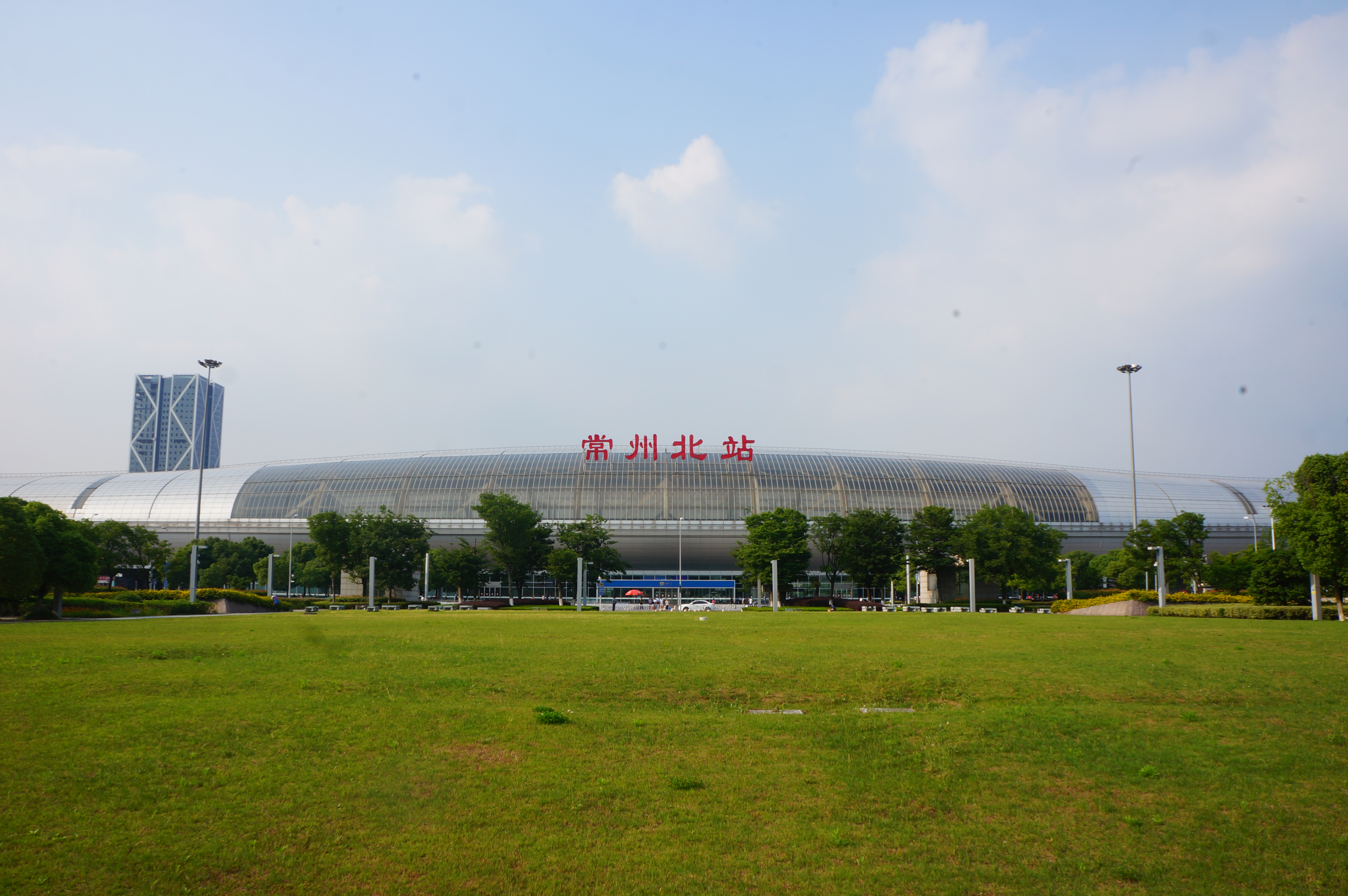 201706 Changzhoubei Station